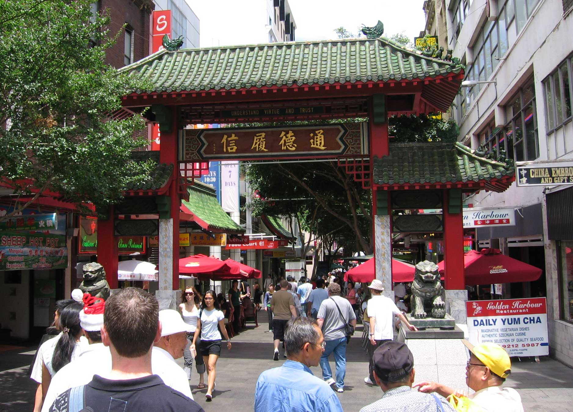 Photo taken by myself on 2 December, 2005.